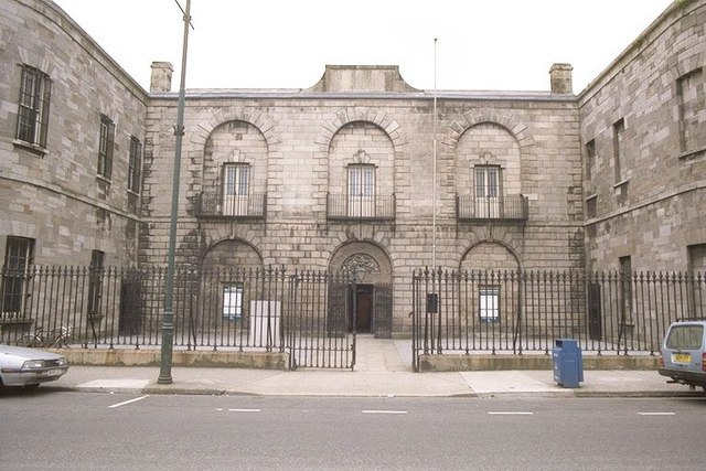 Kilmainham Jail This is the main entrance to the jail (and museum!)